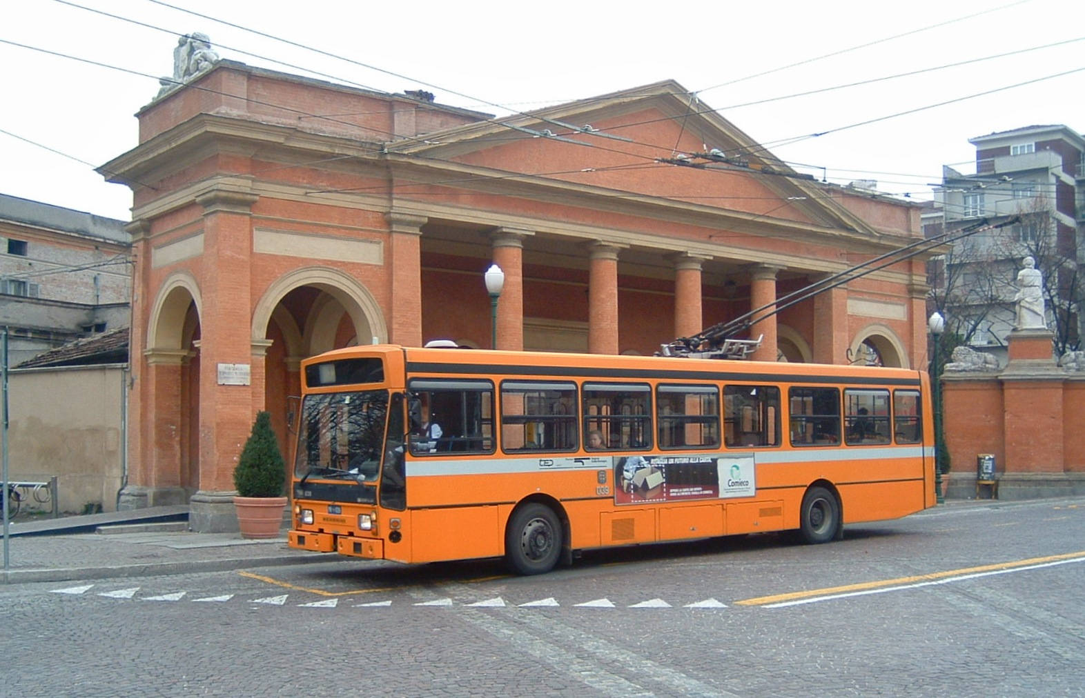 Parma trolleybus 039 southbound at Piazzale Barbieri in 2003. No. 039 was built in 1986 by Menarini.